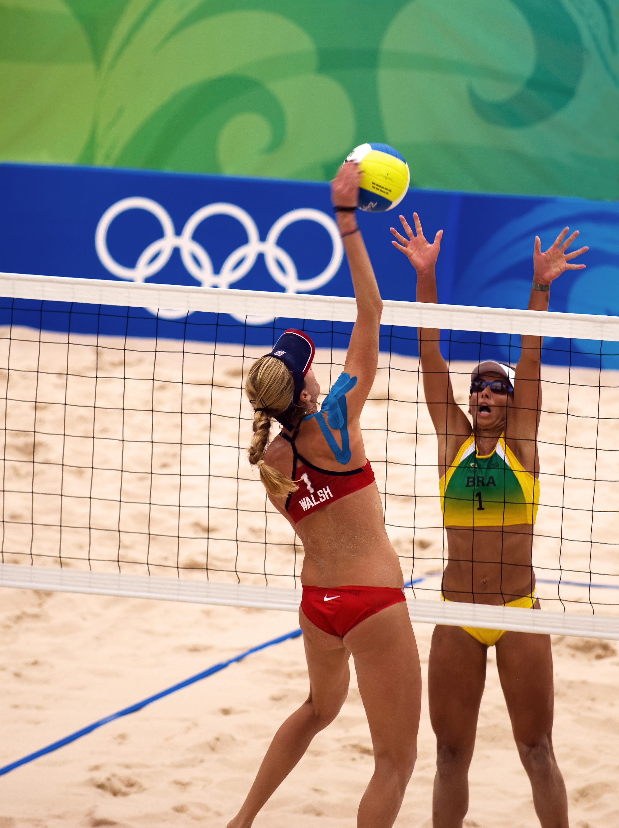 Beijing Olympics, Women's Beach volley, Quarterfinal: Kerri Walsh powering a spike against Ana Paula Connelly of Brazil